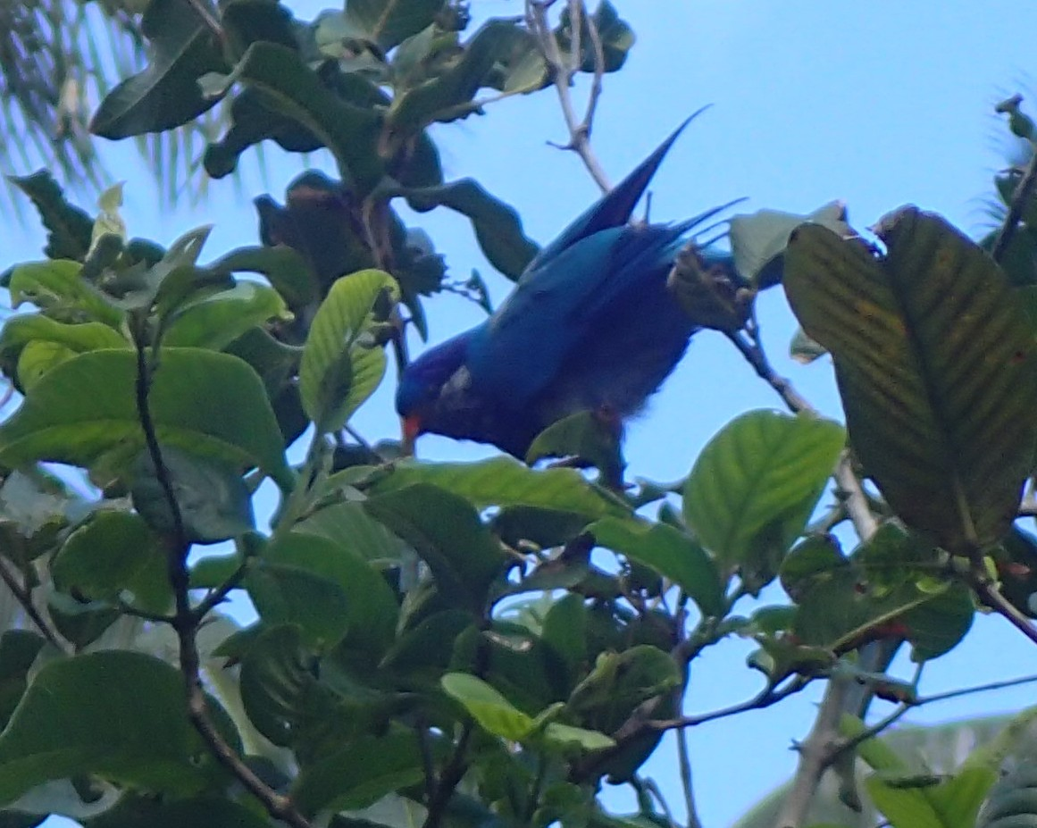 Vini Ultramarina behind the village of Hane on the Island of Ua Huka / Marquesas Islands / Polynesia